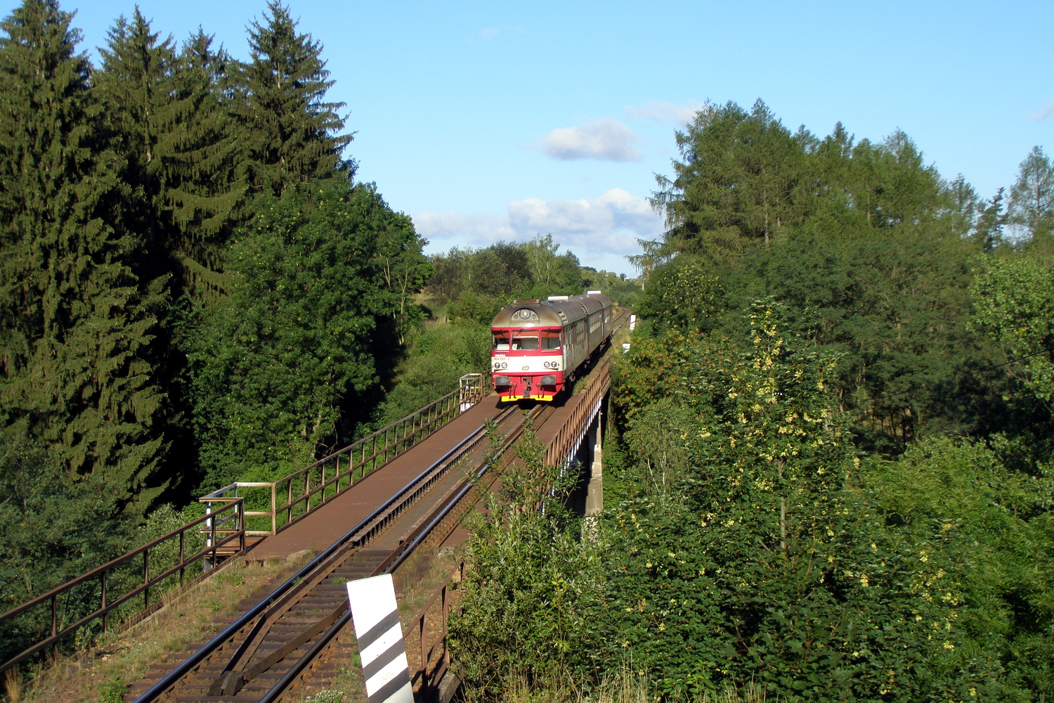 Třebíč-Jejkov. A power car class 854 (854 222-7 „Rozárka“) on the bridge over Lorenz Valley near Třebíč